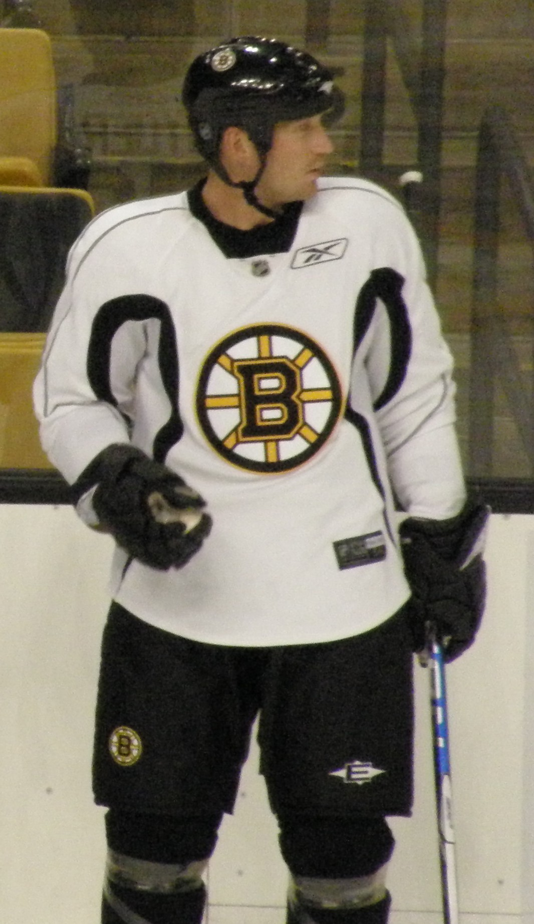 73 Michael Ryder RW @ Bruins practice in 2008